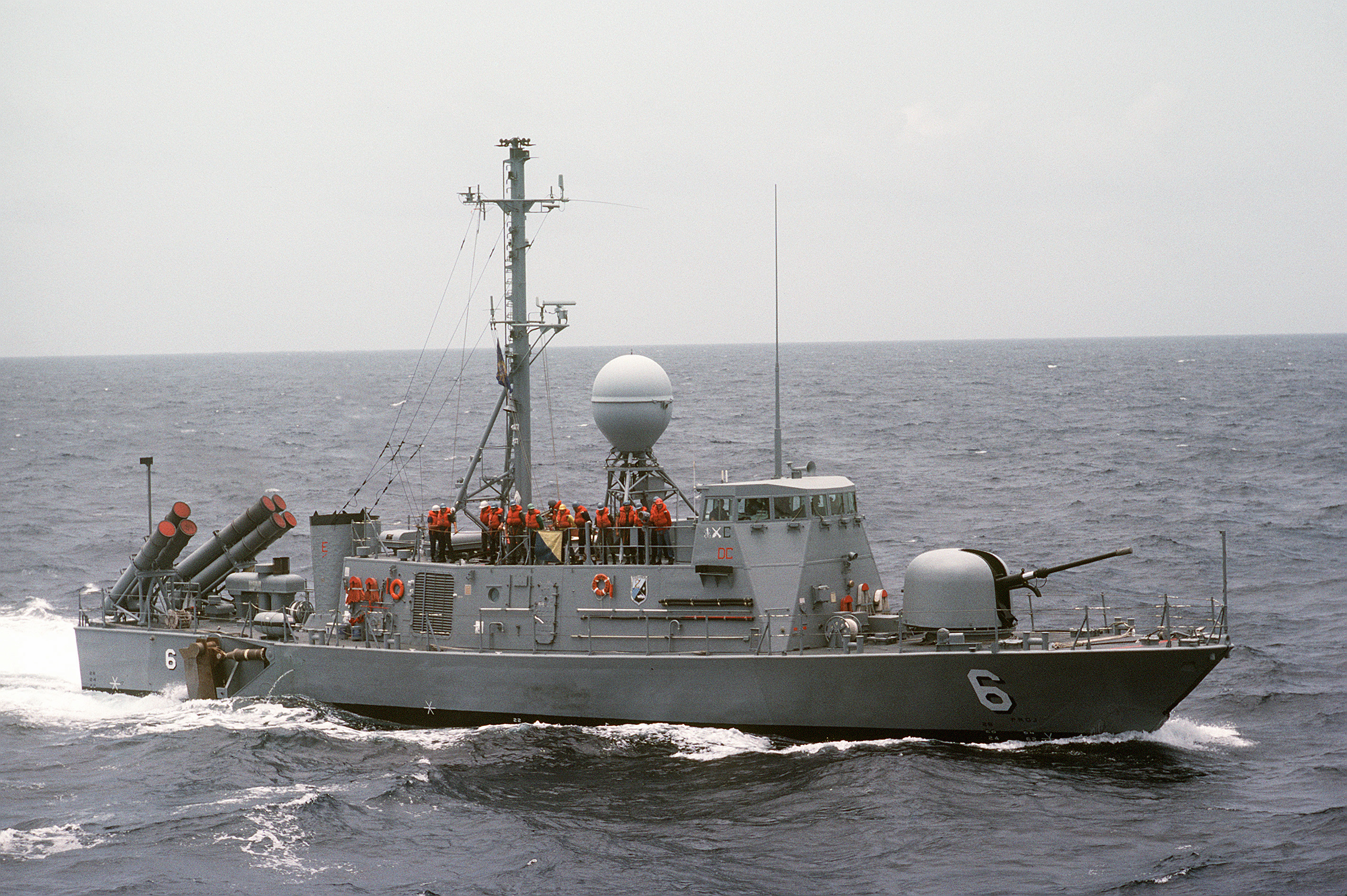 Starboard bow view of the Pegasus class patrol combatant-missile (hydrofoil) USS GEMINI (PHM 6) underway during UNITAS 85.